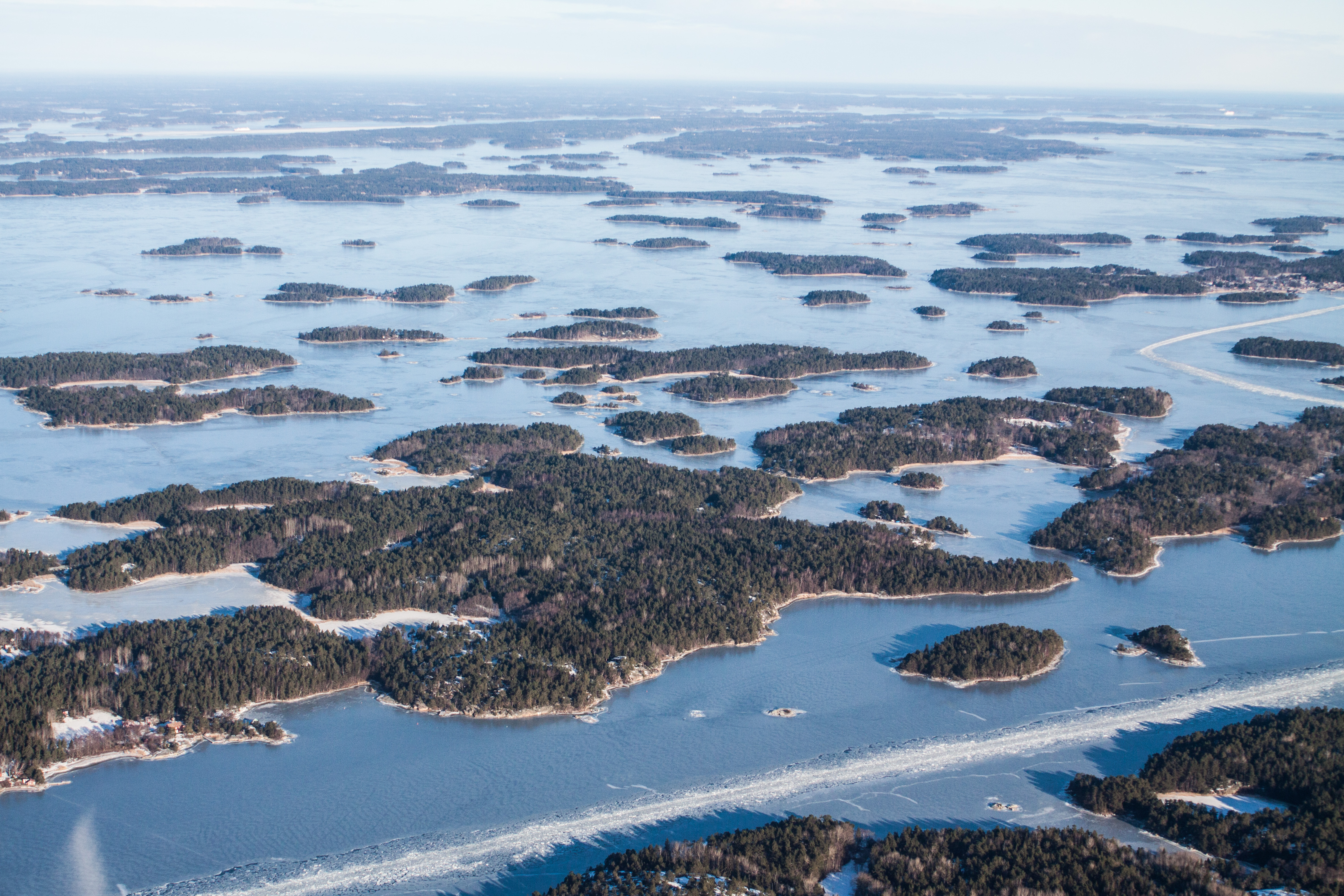 Aerial view over the Stockholm archipelago looking north-north-west. The track shows the ferry route to the island of Husarö slightly above mid-right. In the foreground, but beyond the ferry track, are the islands of Ingmarsö, to the left, and Finnhamn/Stora Jolpan, to the right. In the distance behind Husarö can be seen the larger islands of Yxlan and Blidö, and beyond them the main shipping route into Stockholm, indicated by the presence of (just visible) ships at top left and top right. Aerial images arranged by Wikimedia.